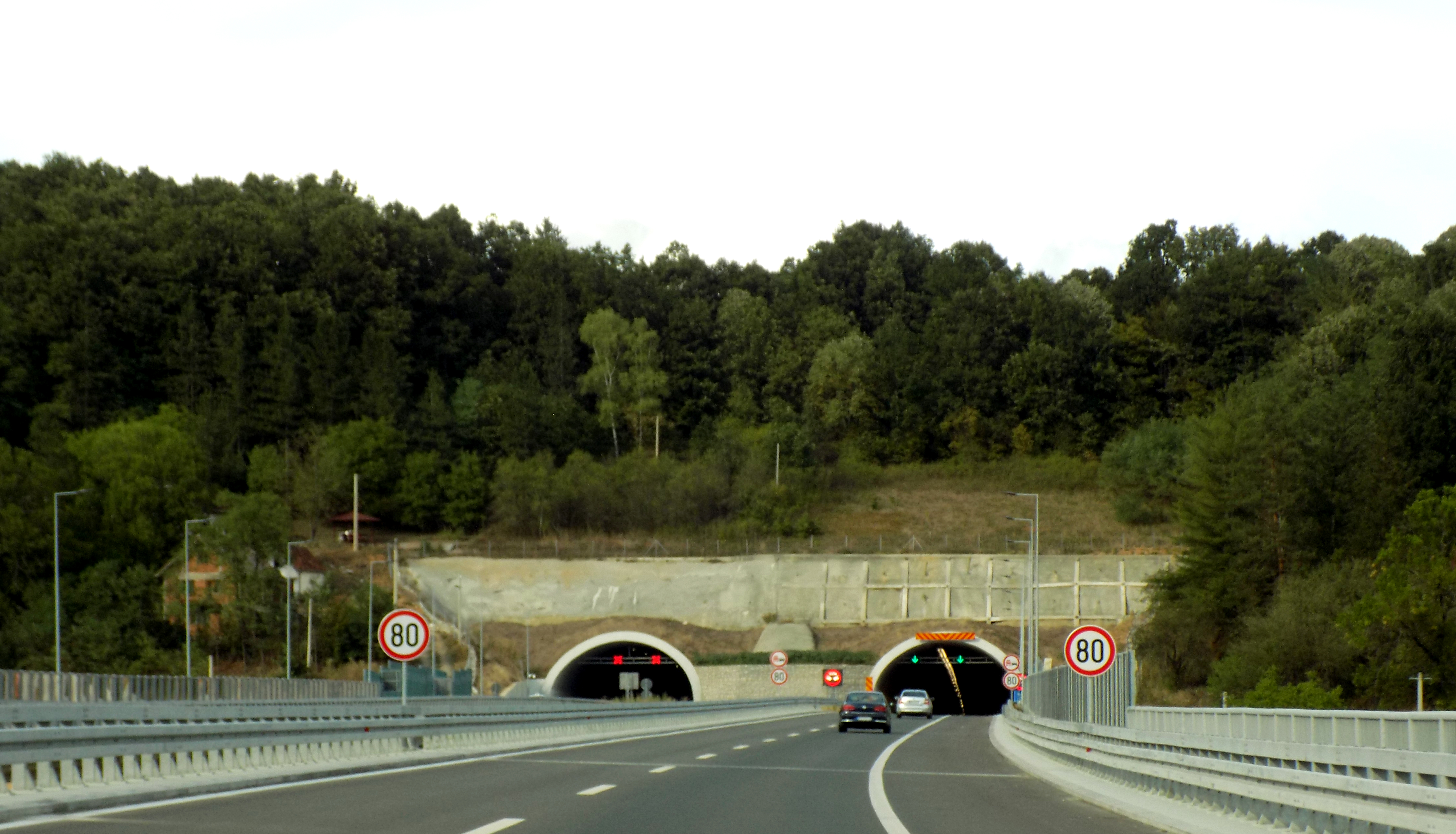 Motorway A2 (Serbia), Tunnel Savinac